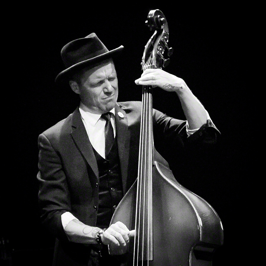 Wojtek Mazolewski Quintet performs at Cosmopolite Scene in Oslo. The quintet consists of Wojtek Mazolewski (double-bass), Oscar Torok (trumpet), Marek Pospieszalski (saxophone), Joanna Duda (piano, keyboards) og Qby Janicki (drums).